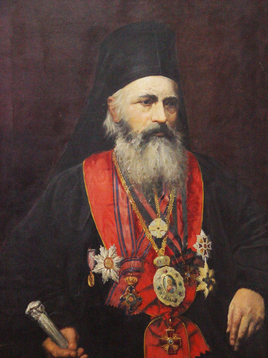 Mihail Stefanescu, a romanian scholar, bishop & free-mason